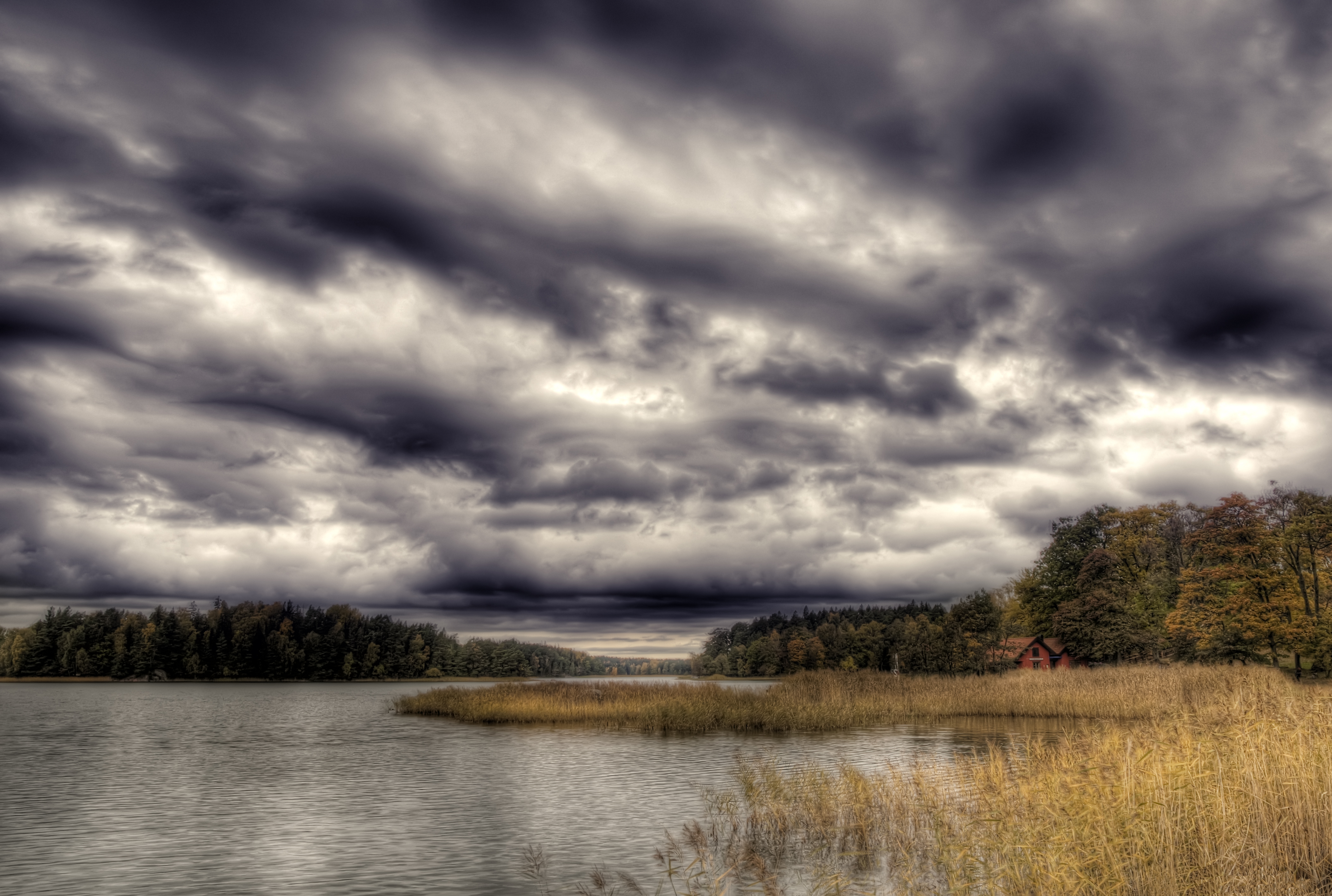 LOBB (Large on black background) Nikon D300 Nikon 16-85 f/3.5-5.6 @ 16mm - 9 exposures, f/11, ISO 100.